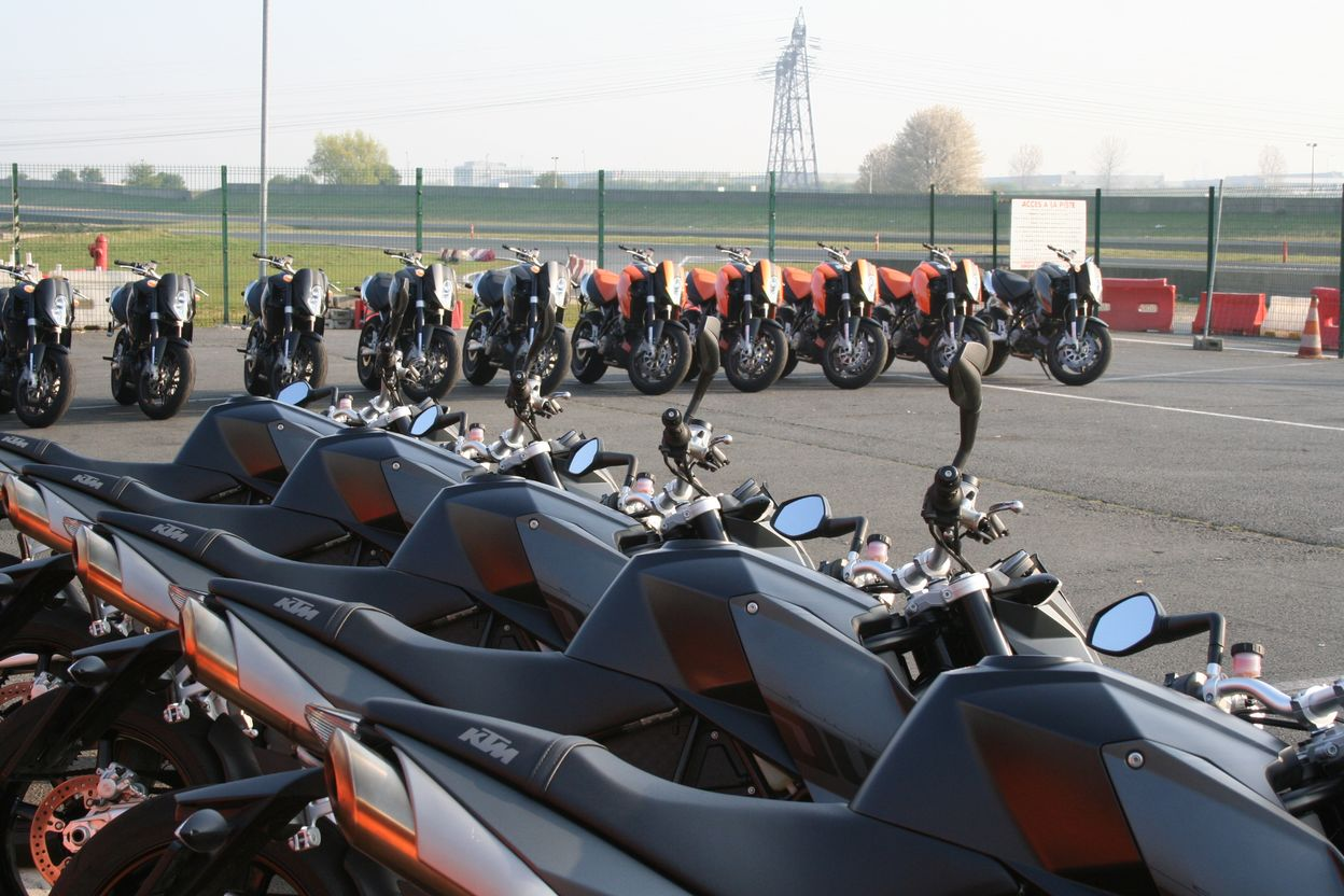 KTM Duke, Carole France